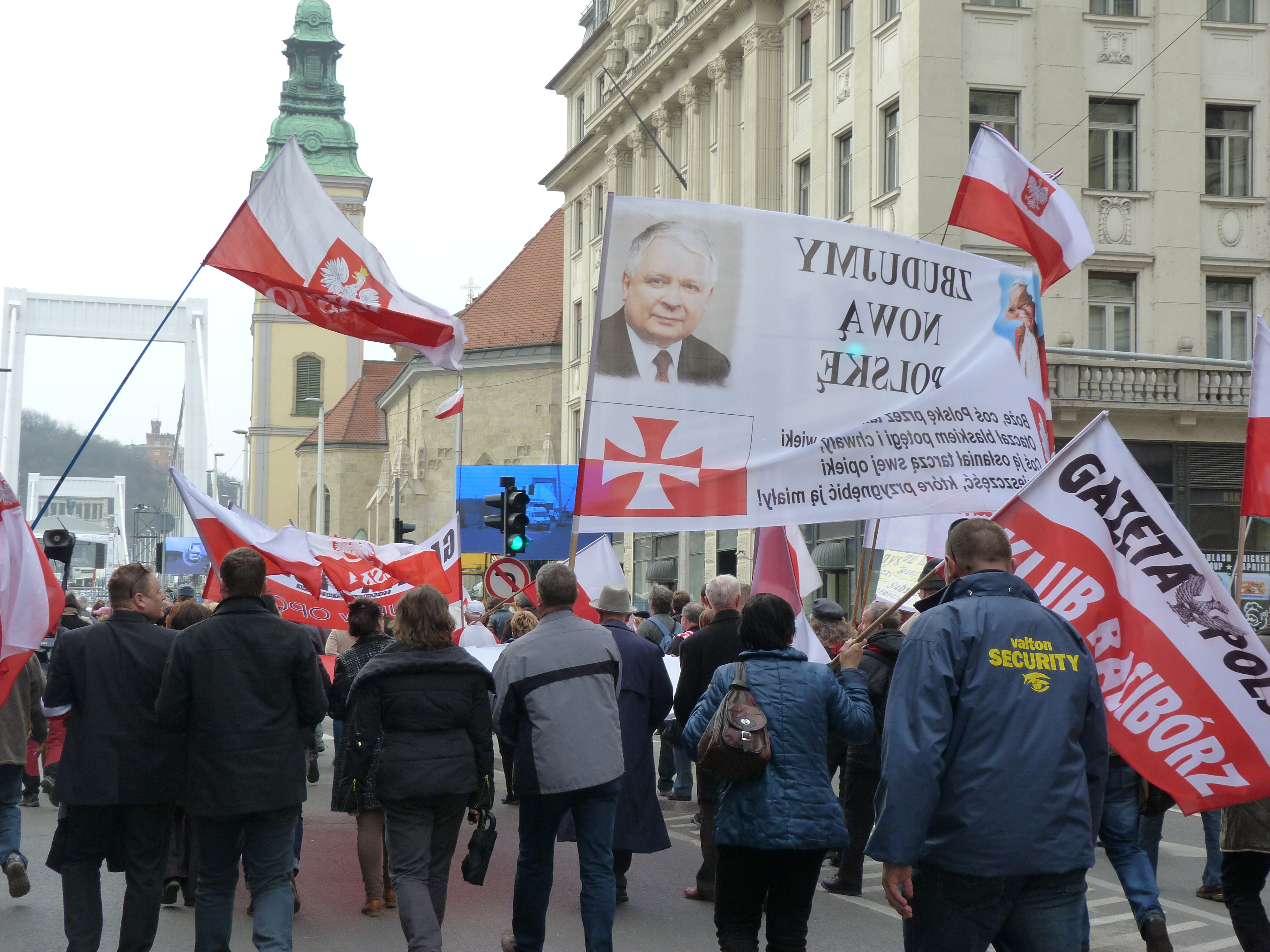 God bless Hungary and Poland ! Boze chron Wegry I Polske ! Live on the 15th of March, 2014. Budapest, just after the 1848 commemoration at the National Museum, where Orbán Viktor held his speach. Sympathy demonstration of the Polish people. ©© Derzsi Elekes Andor, Budapest, 2014, You are authorised to use this photo under Creative Commons – even for commercial, for profit purposes. Photos must be attributed to Derzsi Elekes Andor. All of the photos and vids in the Metapolisz DVD line are under Creative Commons and can be used even for commercial – for profit – purposes. Recommended Citation Derzsi Elekes Andor: Metapolisz DVD line